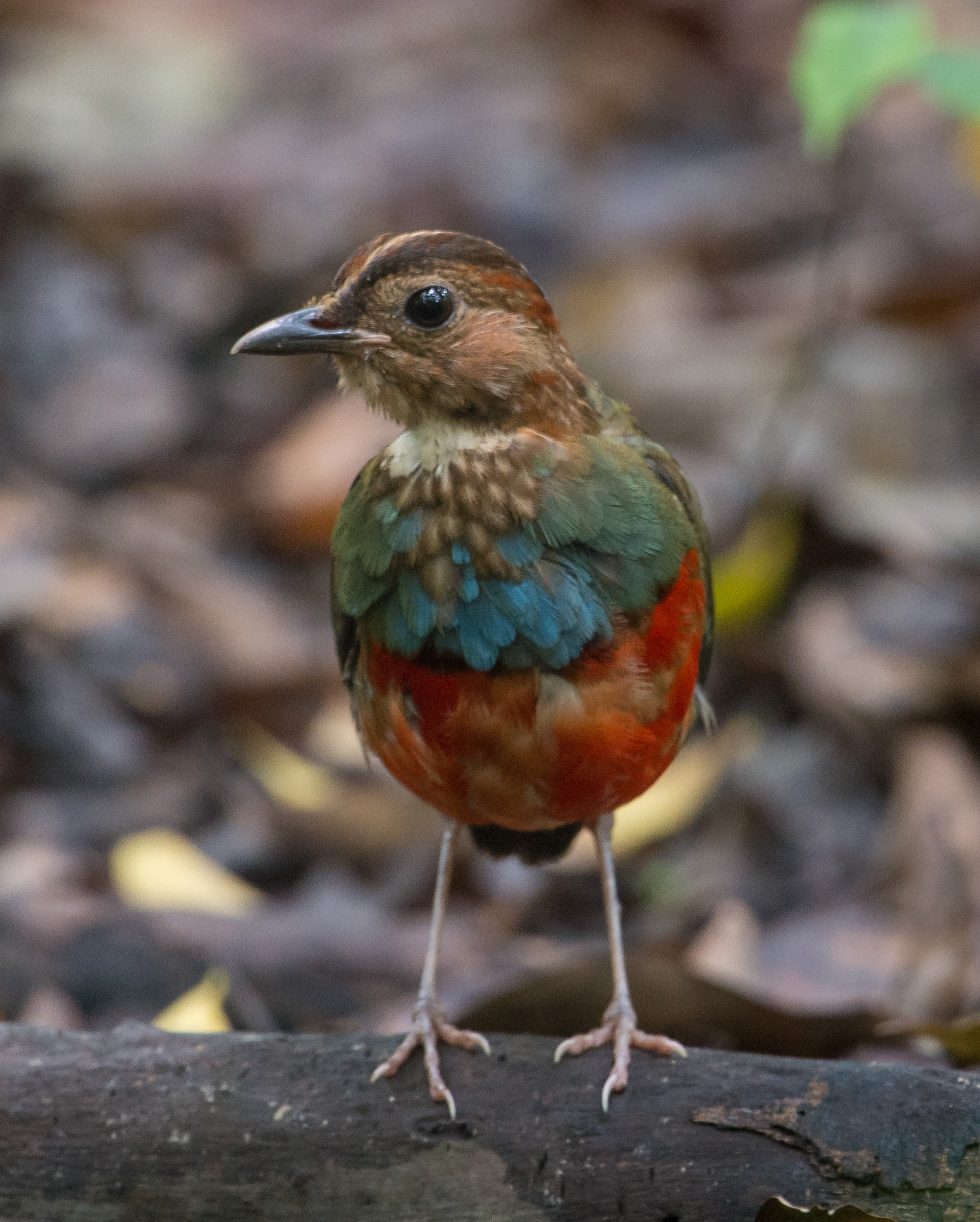 Red-bellied Pitta (Juv.). Tangkoko, North Sulawesi